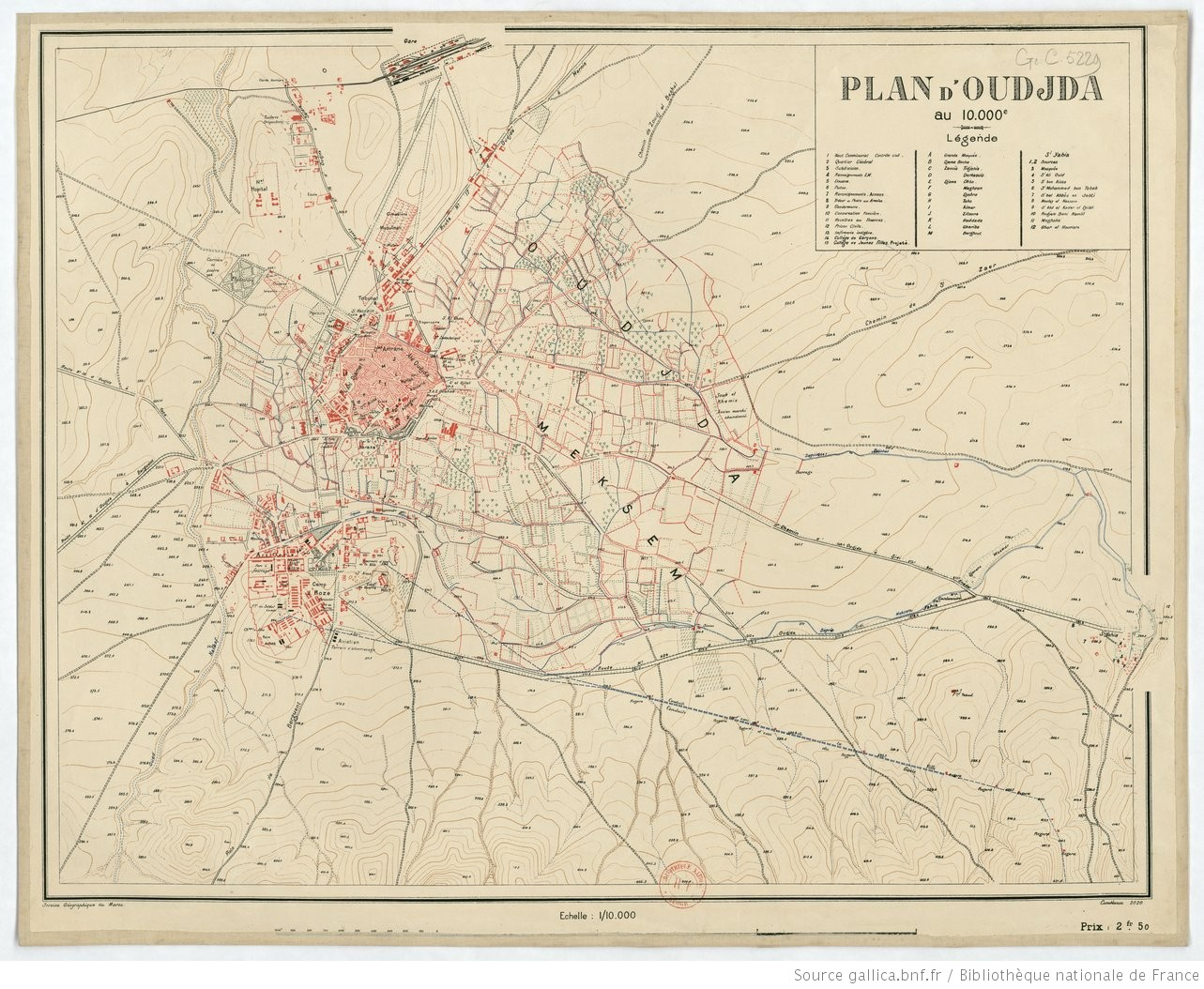 Map of Oujda 10 000th fom 1920